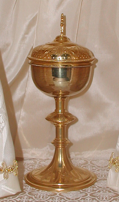 Ciboriom in the church tabernacle of the monestary Onze-Lieve-Vrouwe van de Besloten Tuin (Netherlands). See also Image:Ciborie2.jpg.